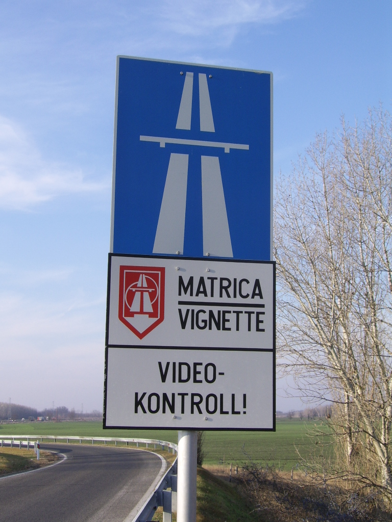 Toll motorway signal in Hungary